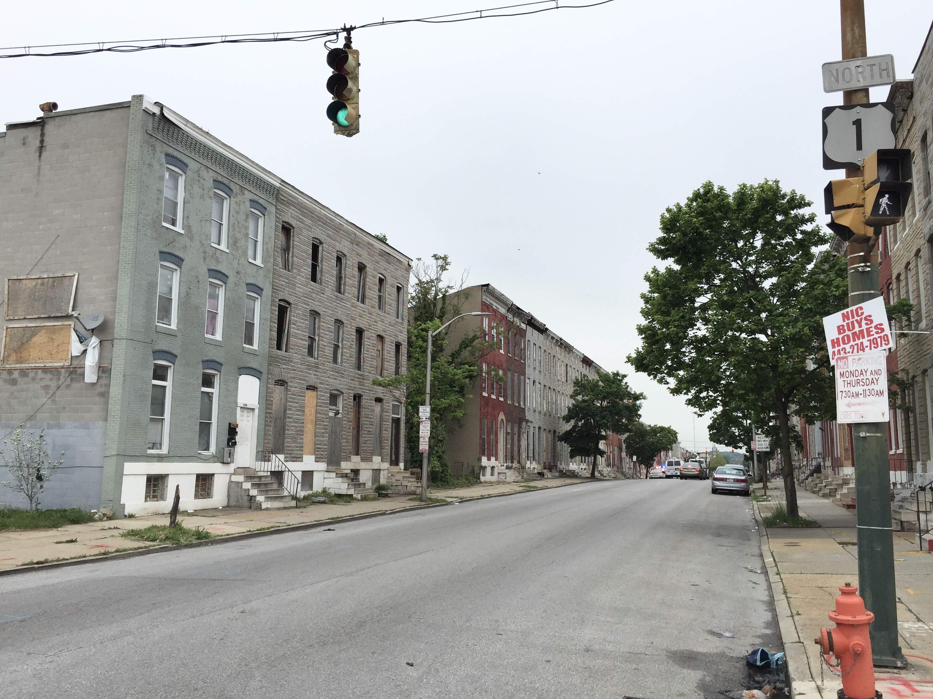 View north along U.S. Route 1 (Fulton Avenue) at Franklin Street in Baltimore City, Maryland